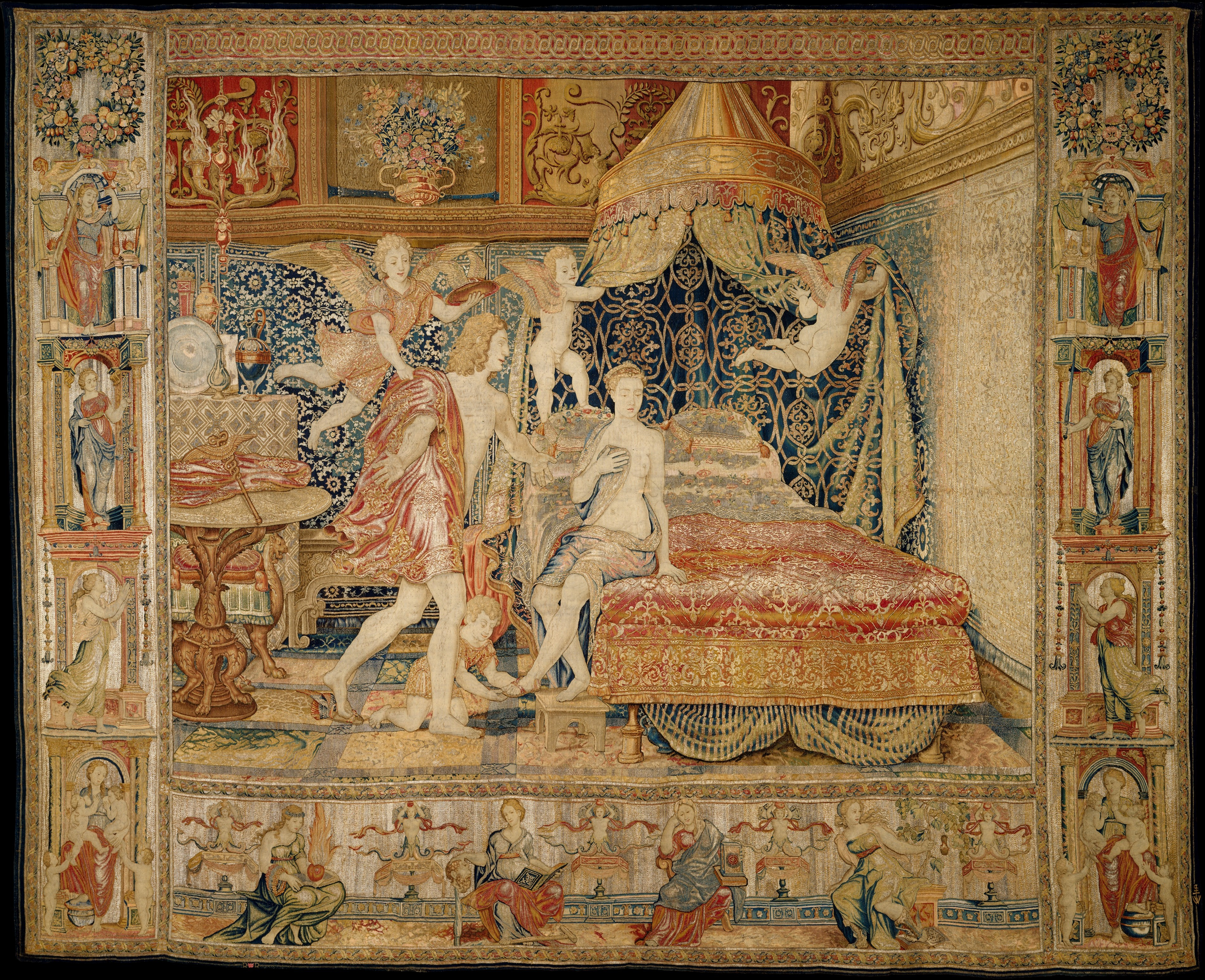 Flemish, Brussels; Tapestry; Textiles-Tapestries